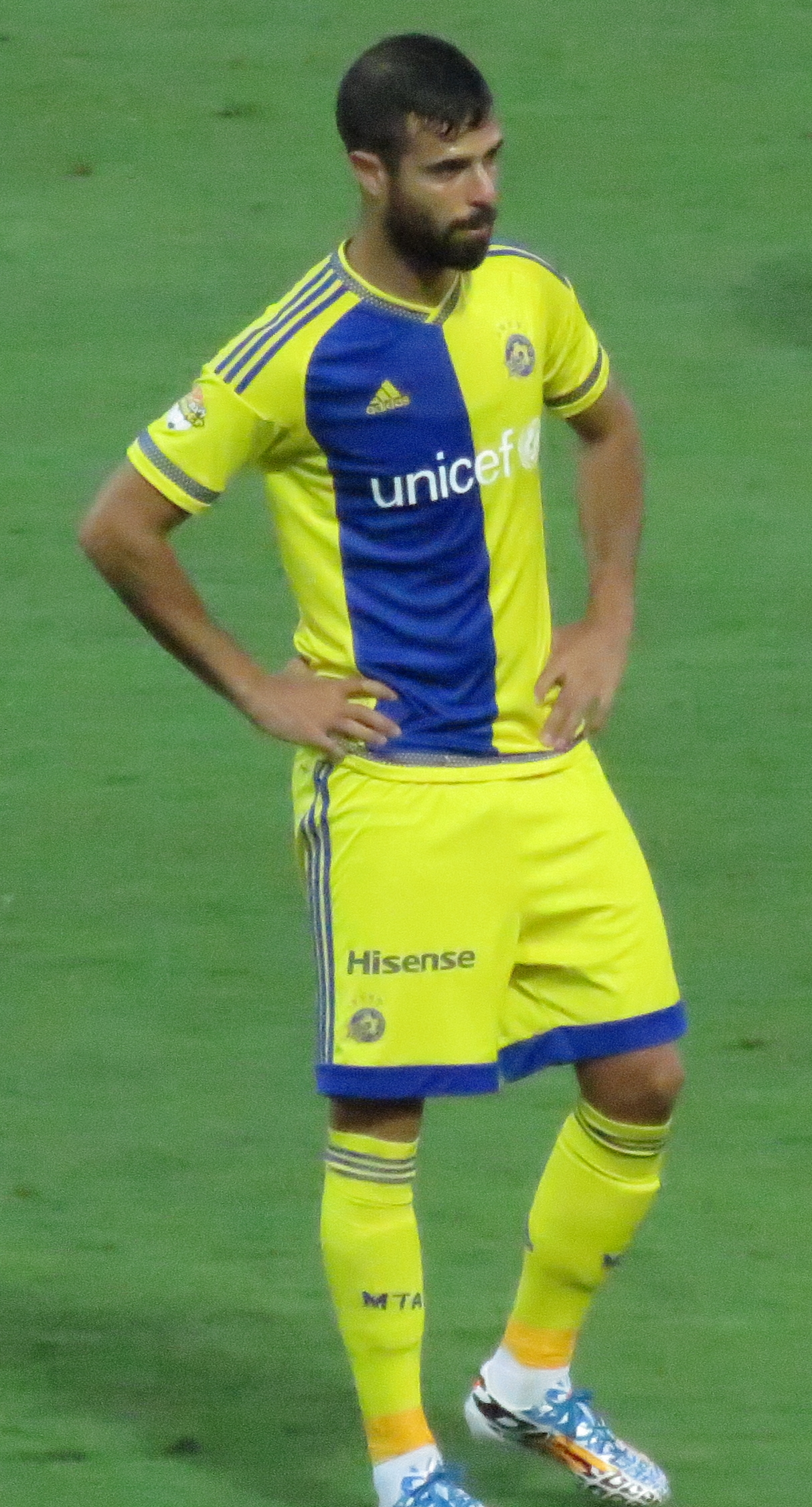 Maccabi Tel Aviv VS. Bnei Sakhnin, 22 August 2015